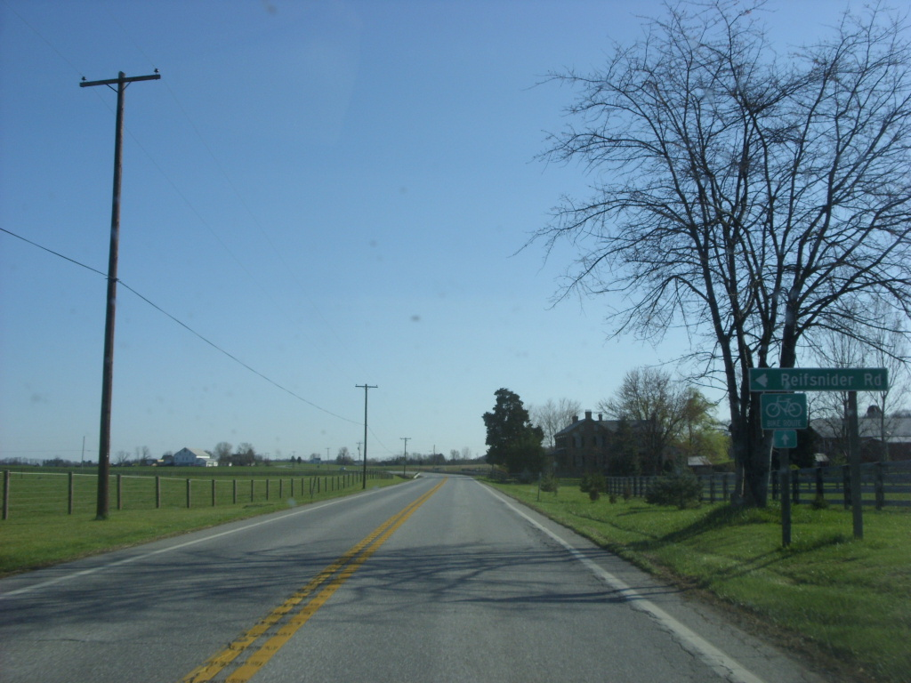 Maryland State Route 194 northbound approaching Reifsnider Road.